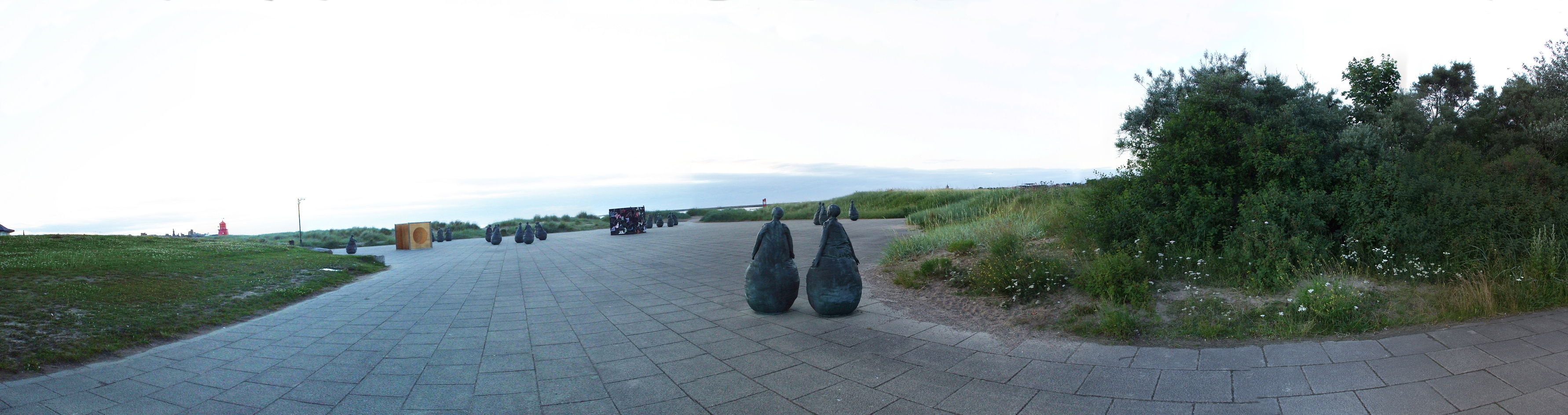 South Shields, beach, Littlehaven, Tyne, Tyneside, Groyne, weebles, conservation piece